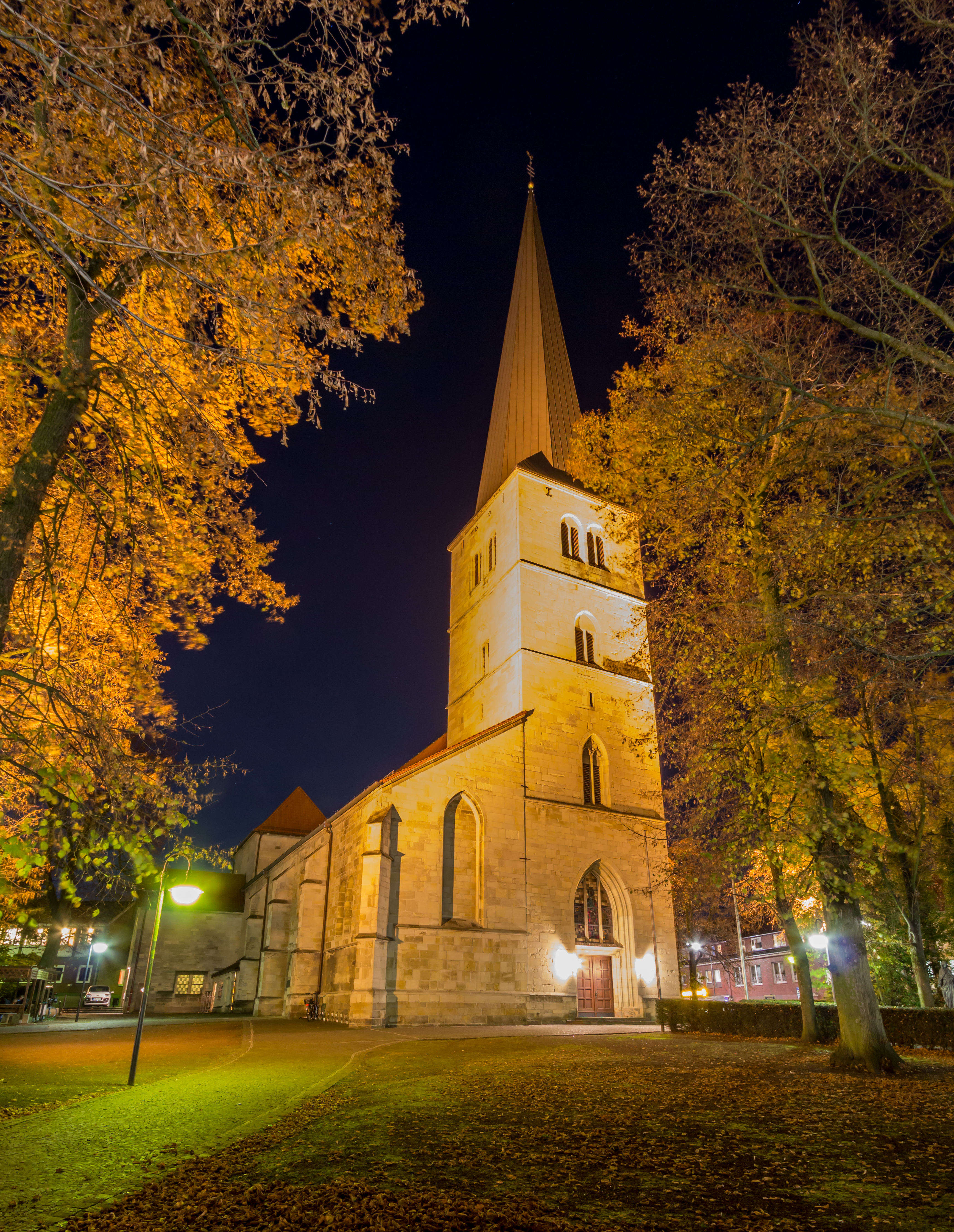 Saint Viktor of Xanten Church, Dülmen, North Rhine-Westphalia, Germany This image shows a heritage building in Germany, located in the North Rhine-Westphalian city Dülmen (no. 15).